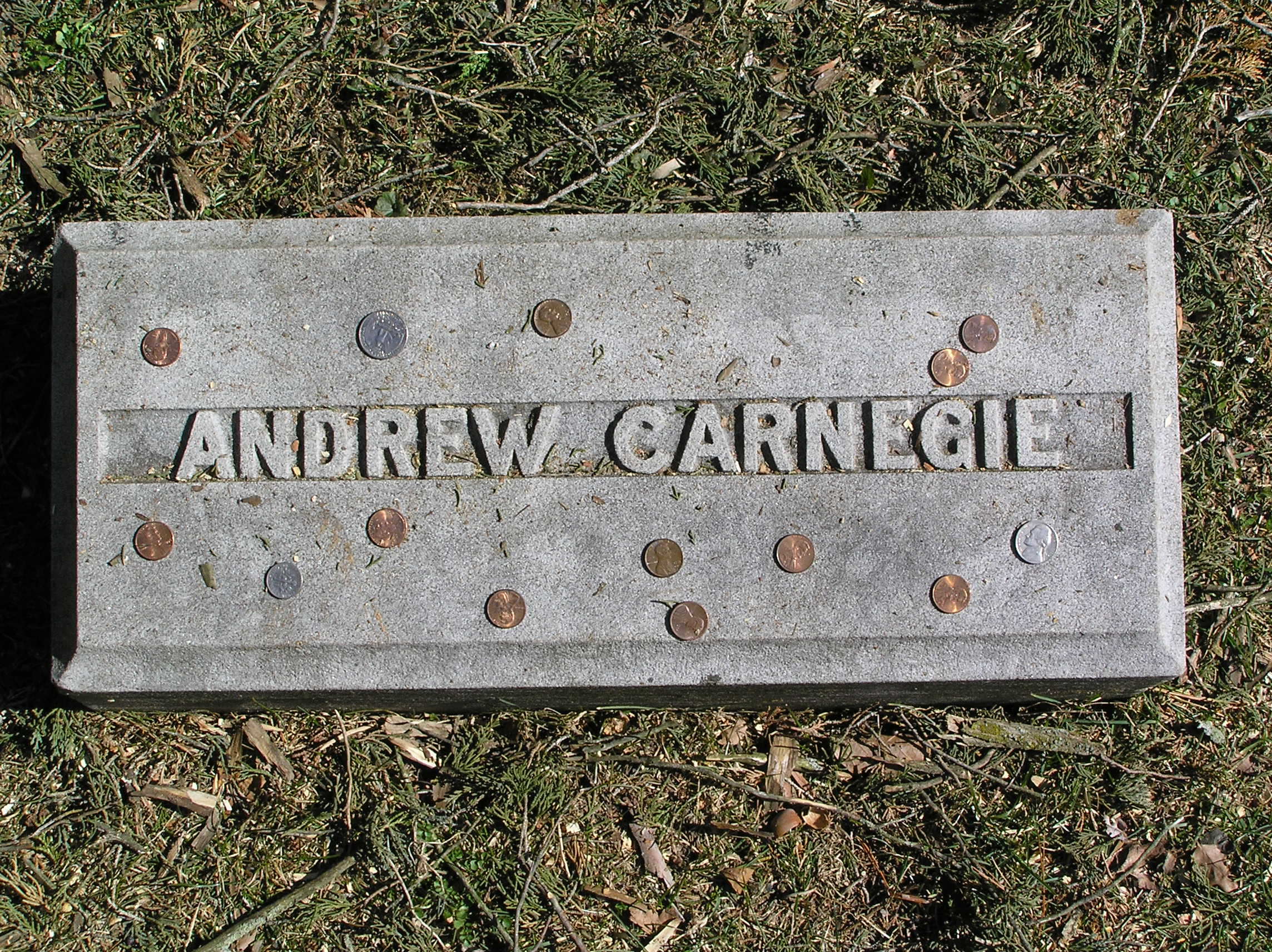 The footstone of Andrew Carnegie in Sleepy Hollow Cemetery